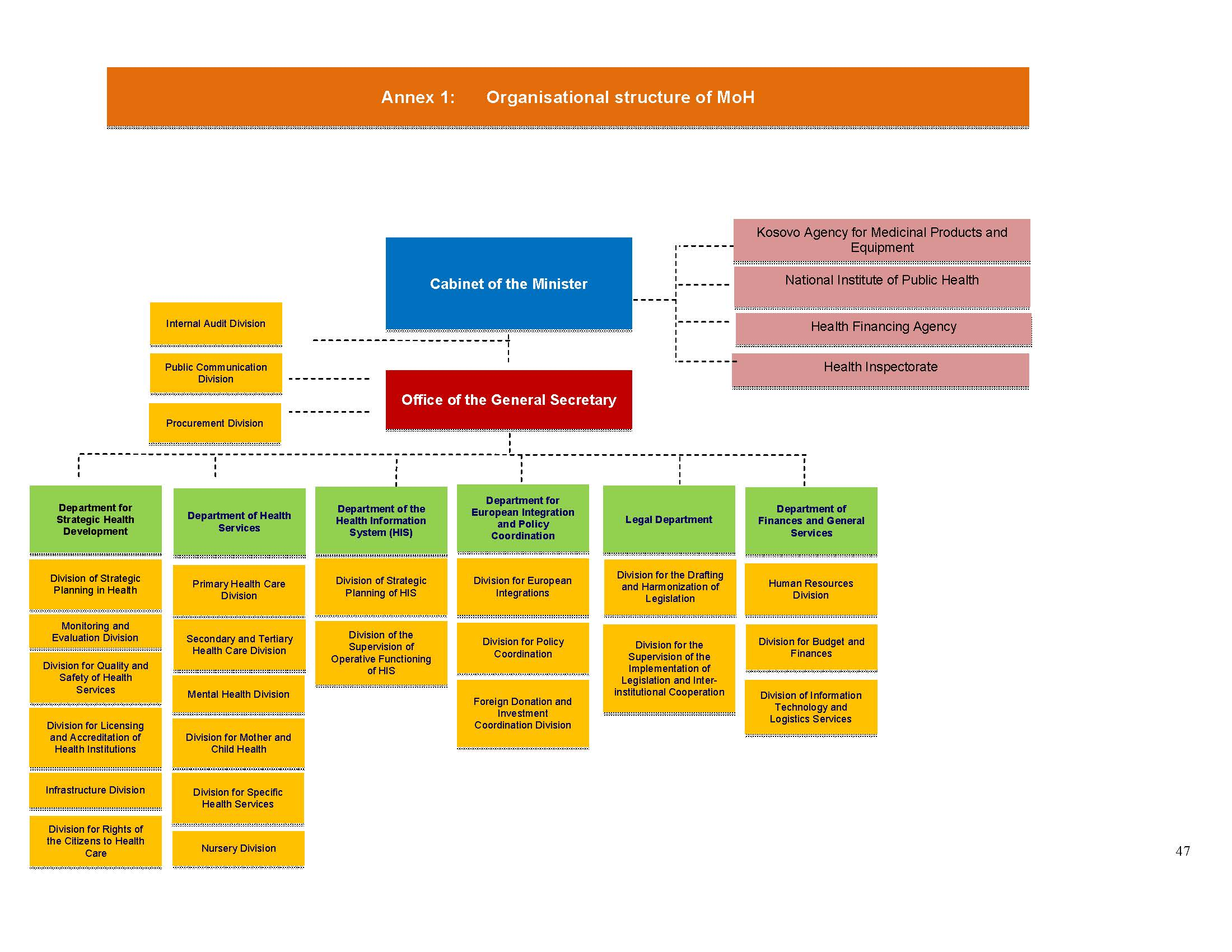 Organization Chart of Ministry of Health - Republic of Kosovo